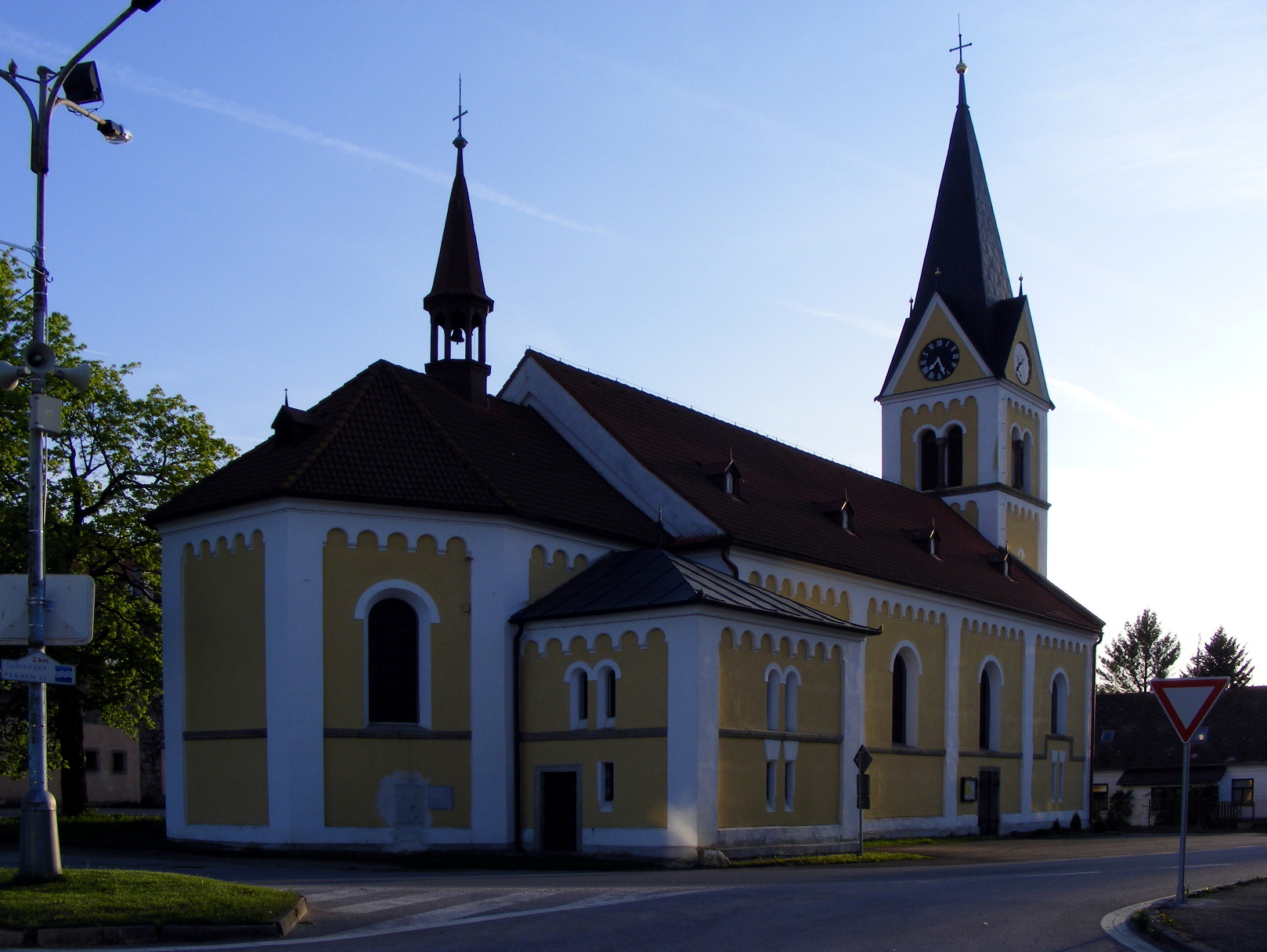 Church in Černá v Pošumaví